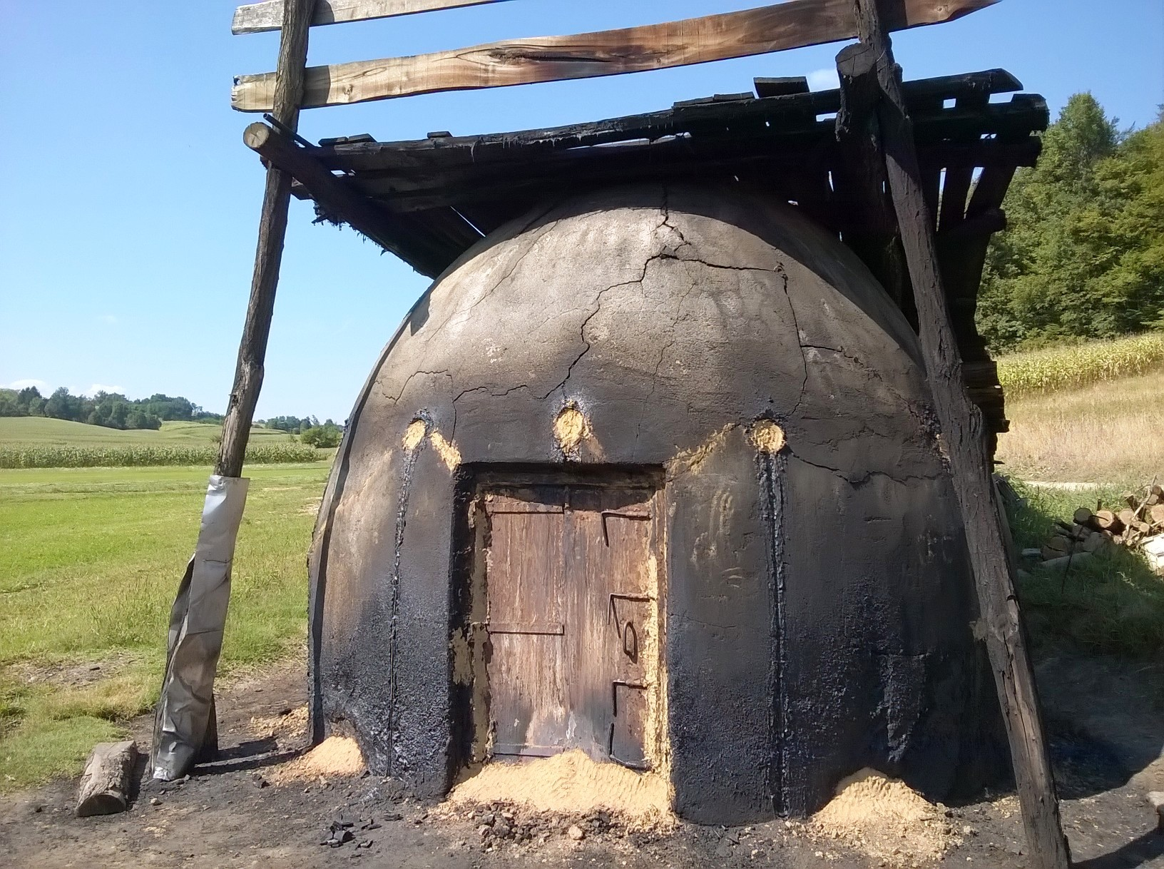 Charcoal pile in Croatia. This is a a photo of a natural area in Croatia with ID: PF04